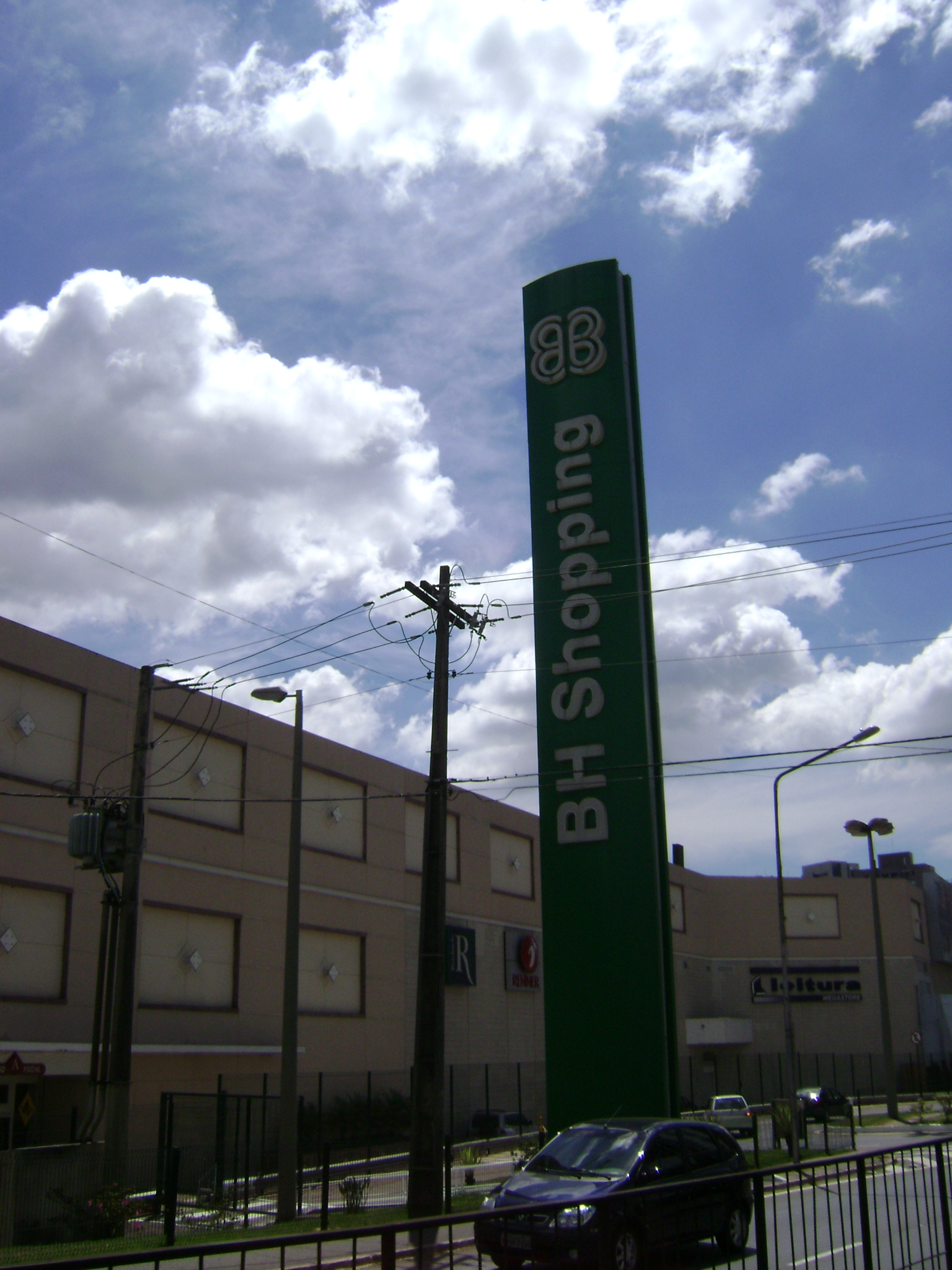 Fachada do BH Shopping